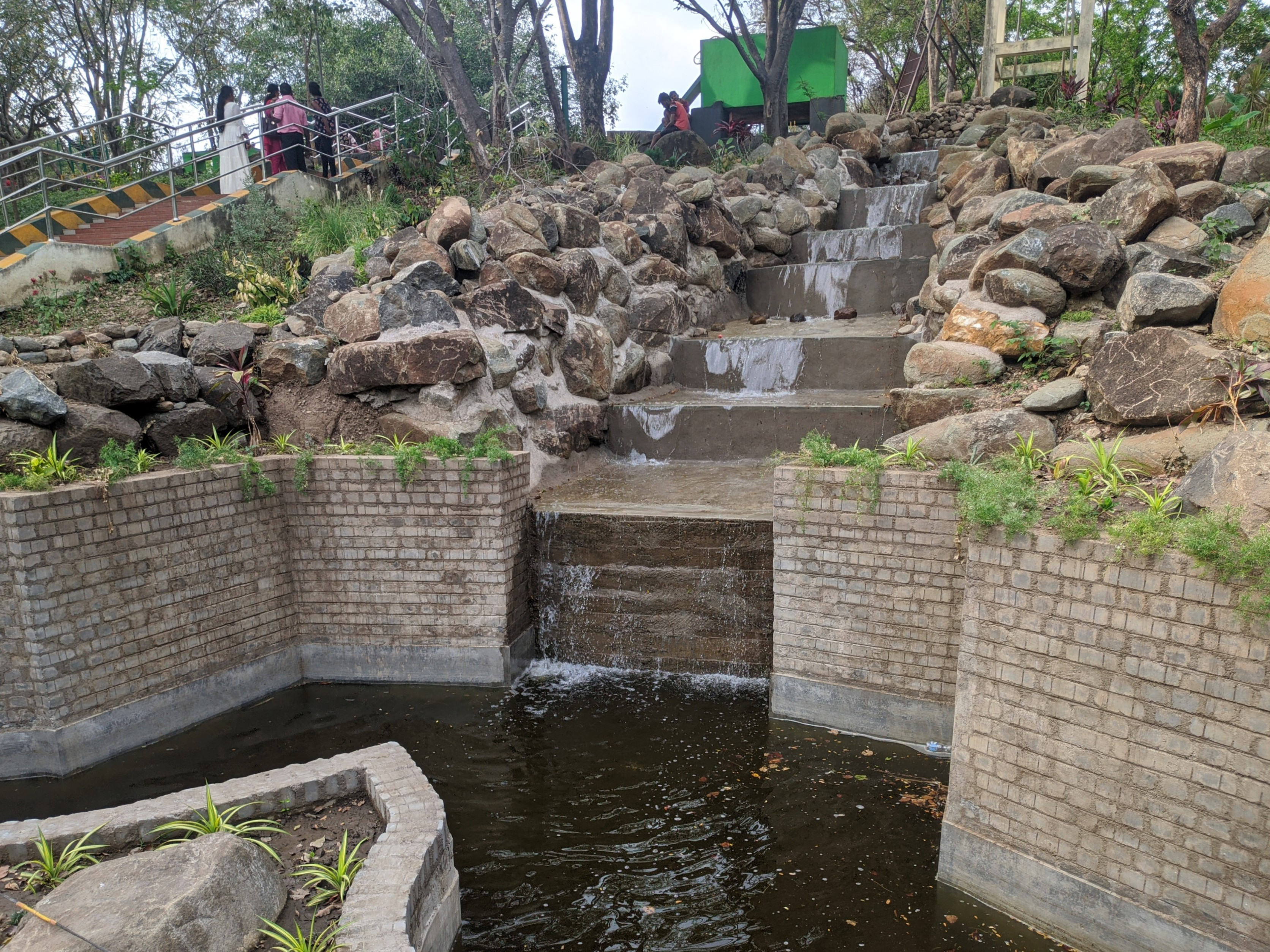 a newly renovated artificial waterfall in kurumbapatti zoo